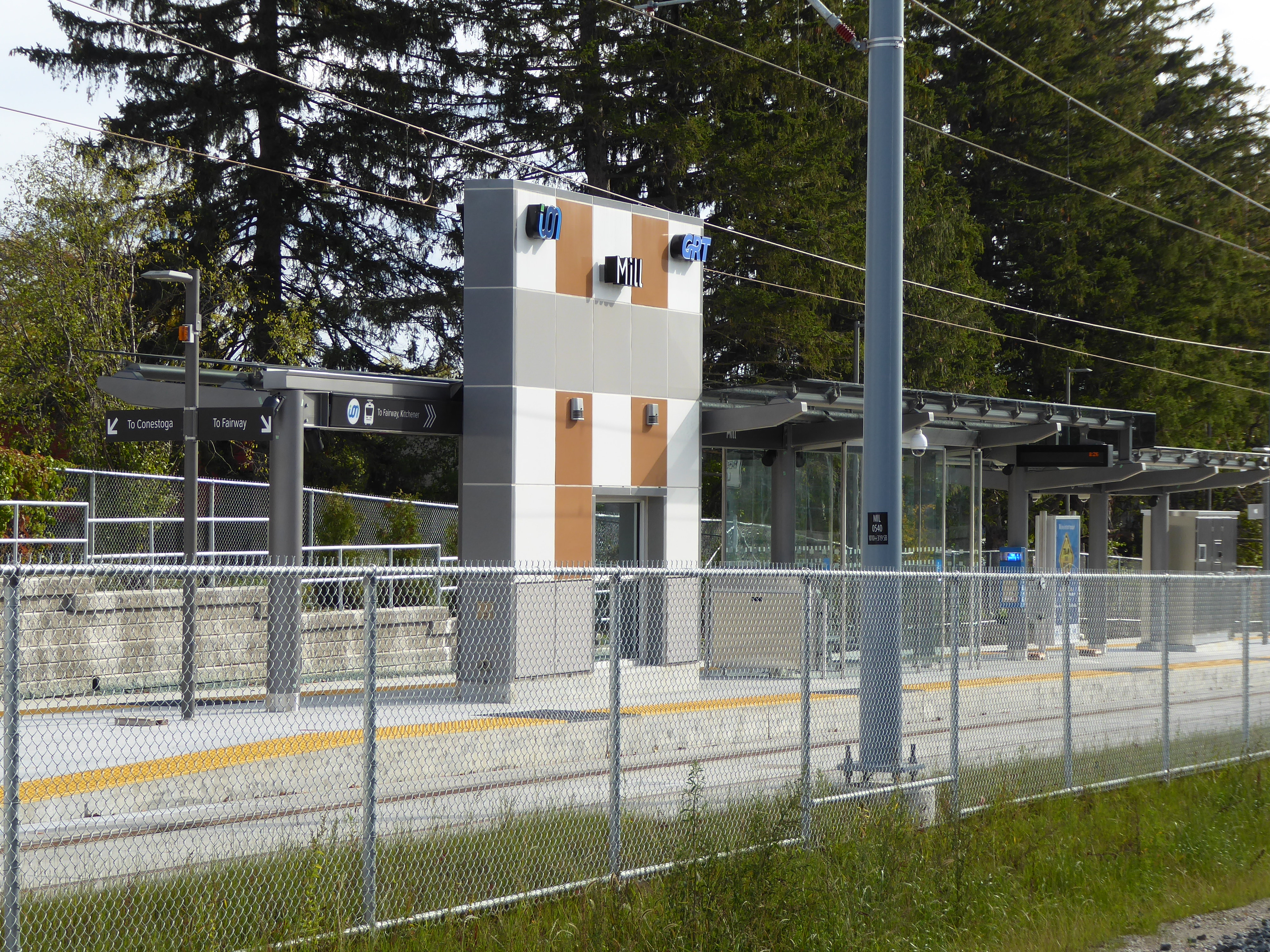 Mill Station of the Ion rapid transit system, photographed structurally complete November 2017